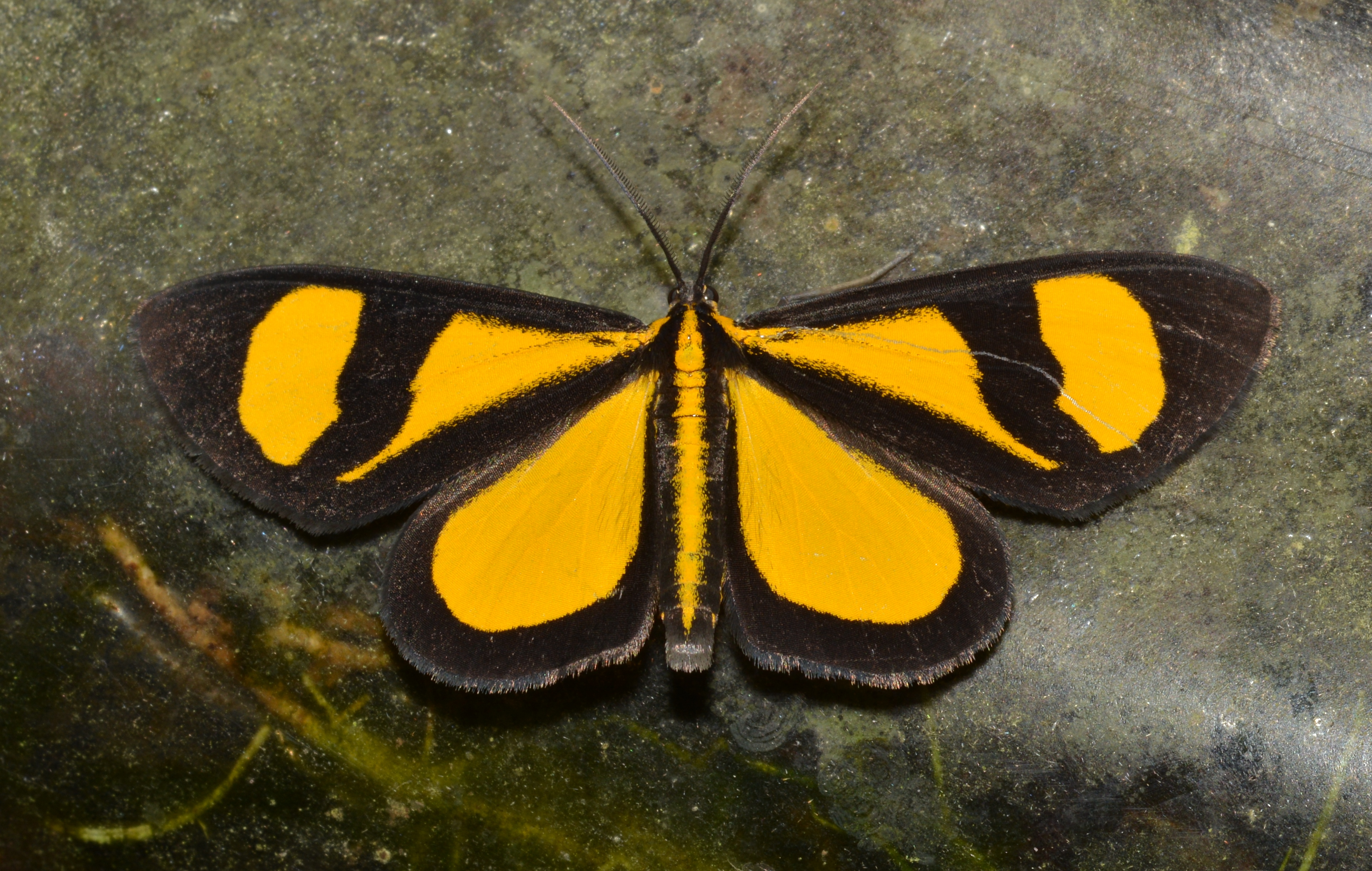 Costa Rica Rancho Naturalista Photos taken between 2/8/16 and 2/14/16 Kyhl wrote: Smicropus laeta (Geometridae: Sterrhinae). Gorgeous!